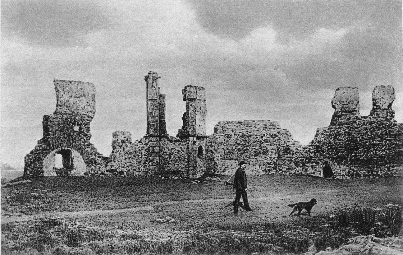 Ruins Kreuzenstein, 1868